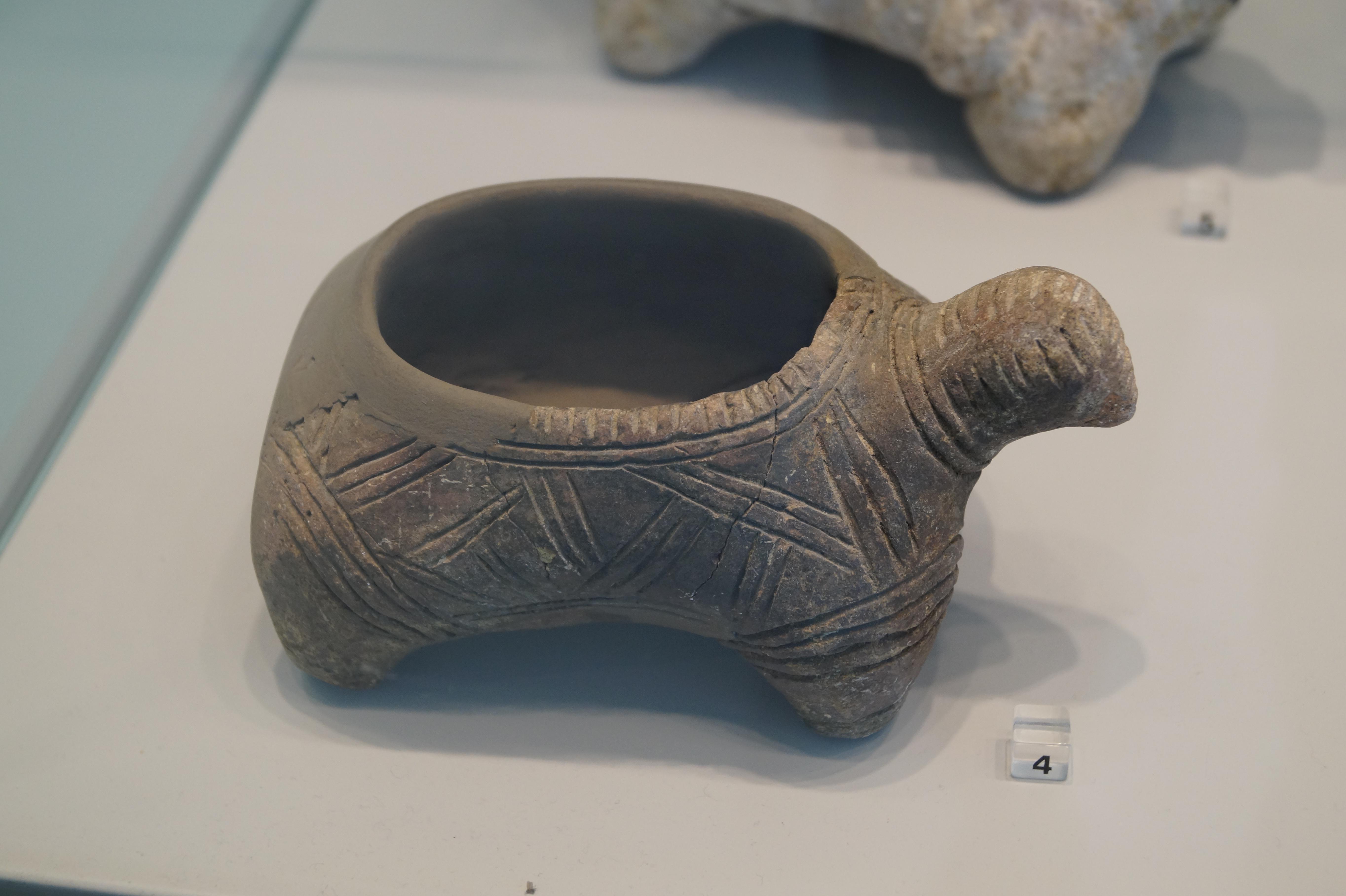 Krinides, Makedonia, Greece: Archaeological Museum of Philippi: Vessel in the form of a turtle, Late Neolithic II (4800-4200 BC)